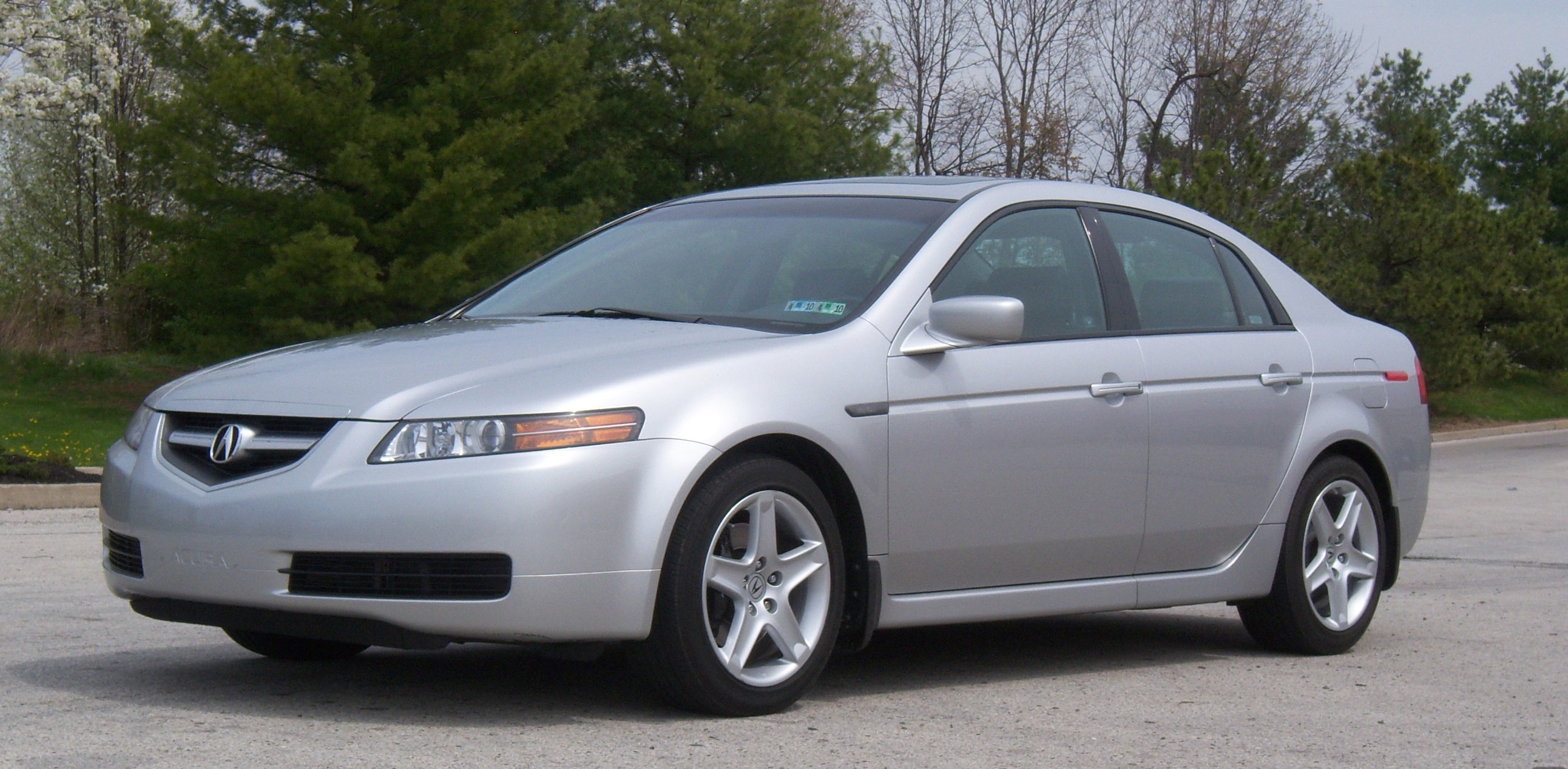 2006 Acura TL. Front left quarter.